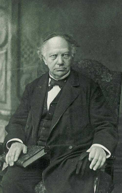 Charles Hermite (1822-1901), french mathematician